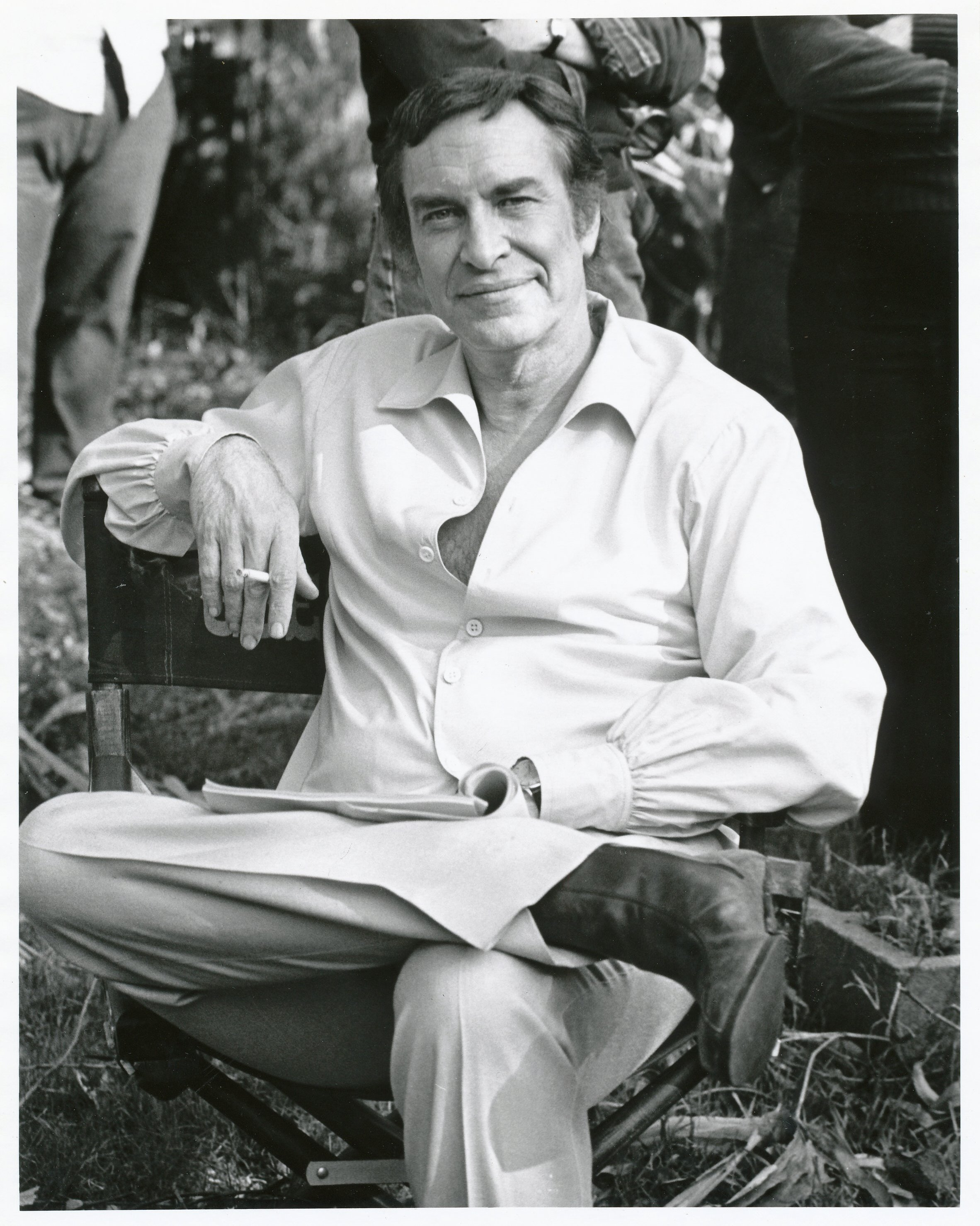 January 26, 1983. A closeup, full view photo of actor Martin Landau who guest starred in an episode of the TV series "Matt Houston" that starred actor Lee Horsley in the title role. The photo shows Martin Landau seated in a chair, smoking a cigarette during a break in the filming near the upper lagoon south of the youth ed building. Photo by Sandy Snider.